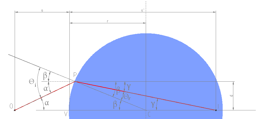 Refraction diagram of a spherical dioptre